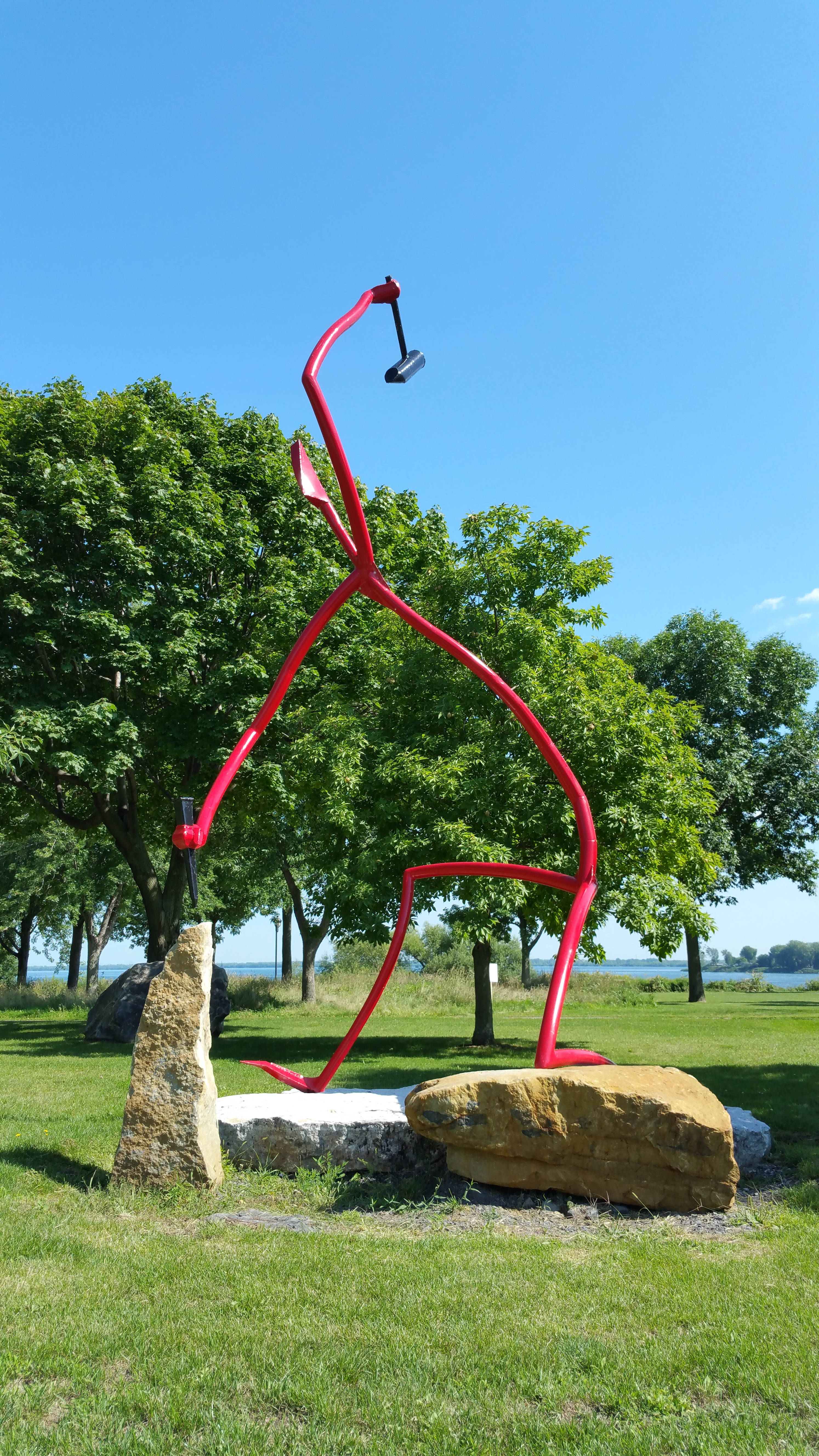 "Le tailleur de pierre", 1990, Sculpture by Germain Bergeron, in Verdun, Montréal